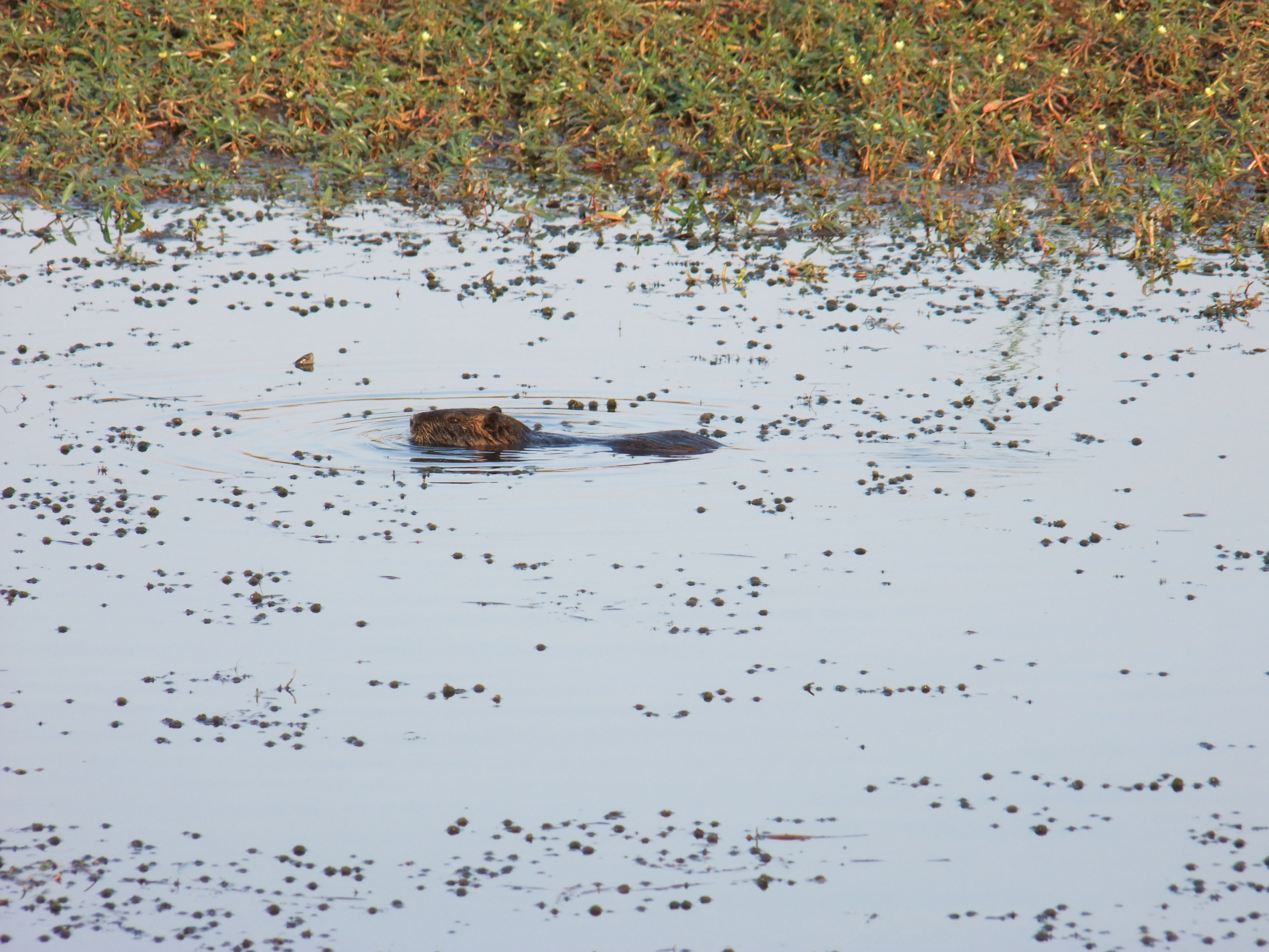 Nutria